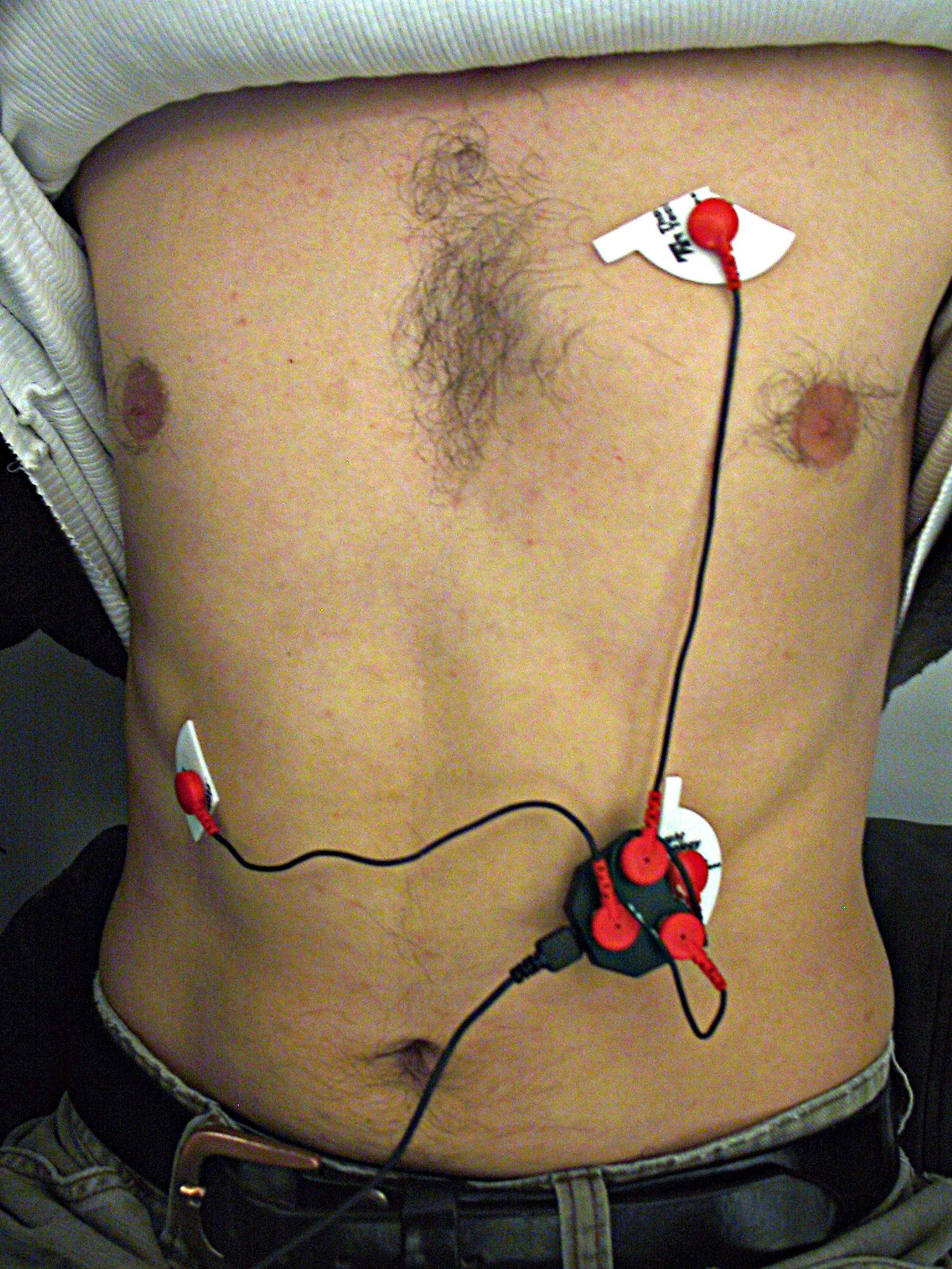 Live concert performance with Electrocardiophone